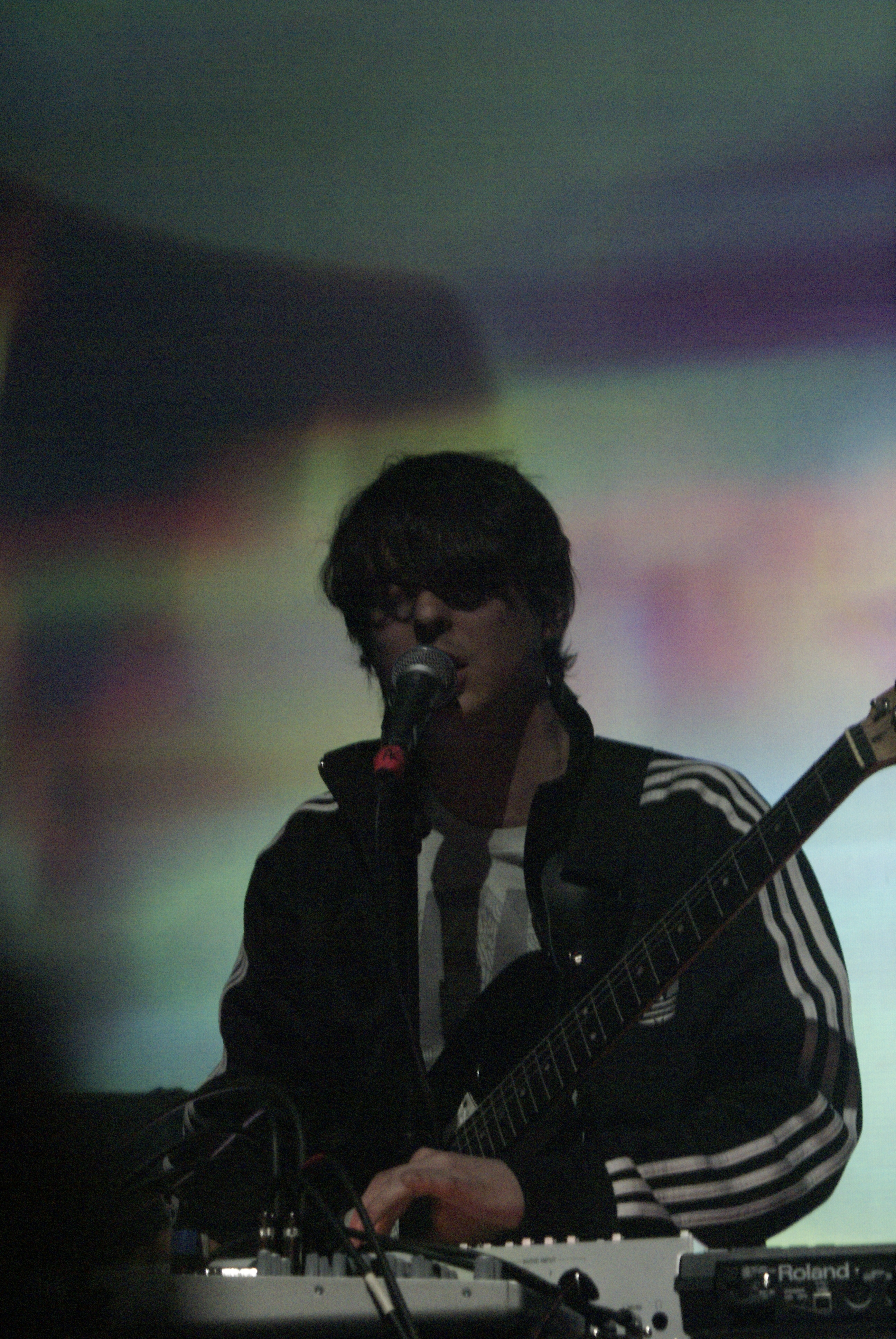 Panda Bear (musician) playing in Paris, 2010